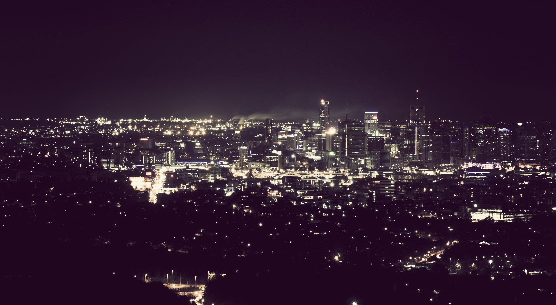 This is a view of Brisbane City by night, from Mt Coot-tha.